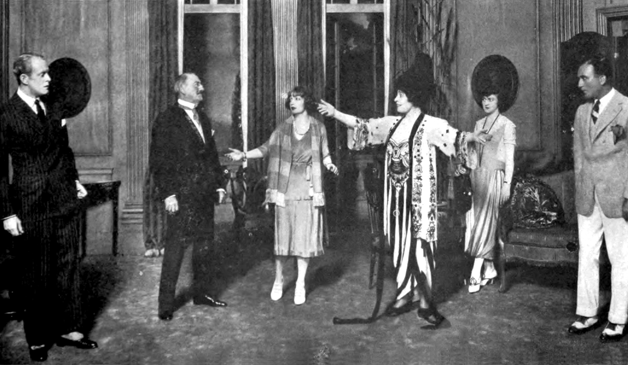 Photograph of the Broadway production of the 1921 play The Circle, by W. Somerset Maugham Caption reads as follows:SCENE IN W. SOMERSET MAUGHAM'S COMEDY "THE CIRCLE"Act I. Lady Kitty (Mrs. Leslie Carter), not having seen her son for thirty years, naturally mistakes Teddie for her own offspring, on whom she turns her back Cast (from left): Robert Rendel, John Drew, Estelle Winwood, Mrs. Leslie Carter, Maxine MacDonald, John Halliday